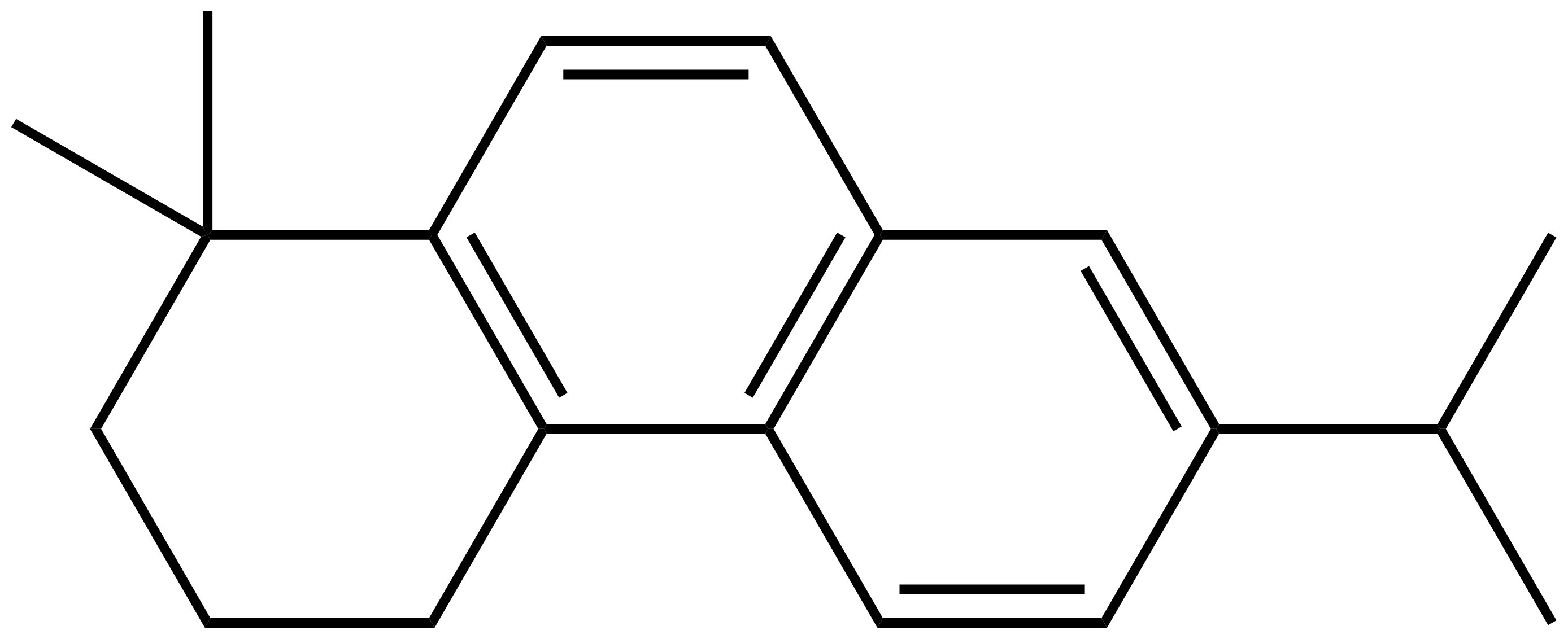 Chemical structure of simonellite